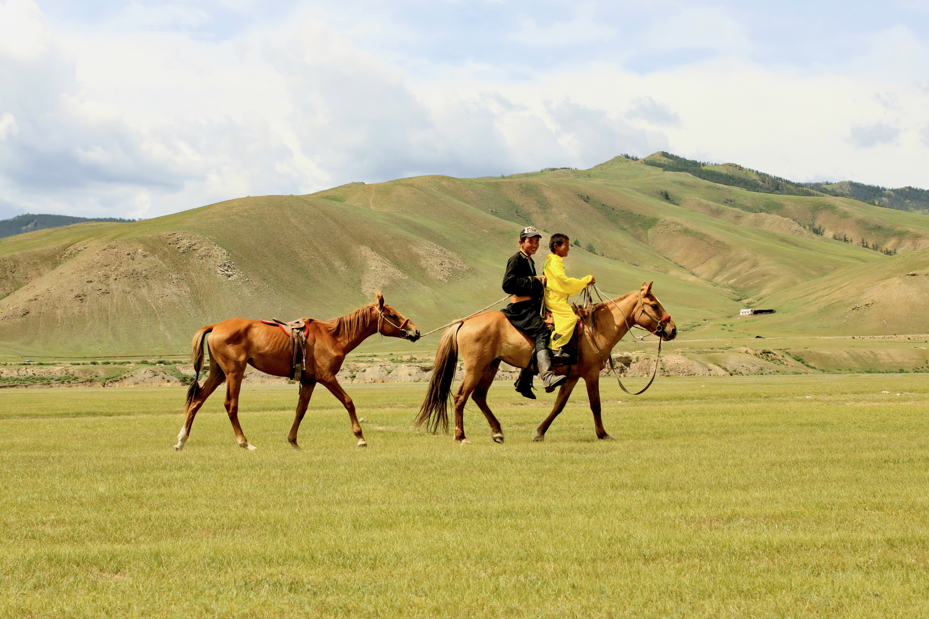 Riders on the steppe before starting of a local Naadam festival. Kharkhorin, Övörkhangai Province, Mongolia.